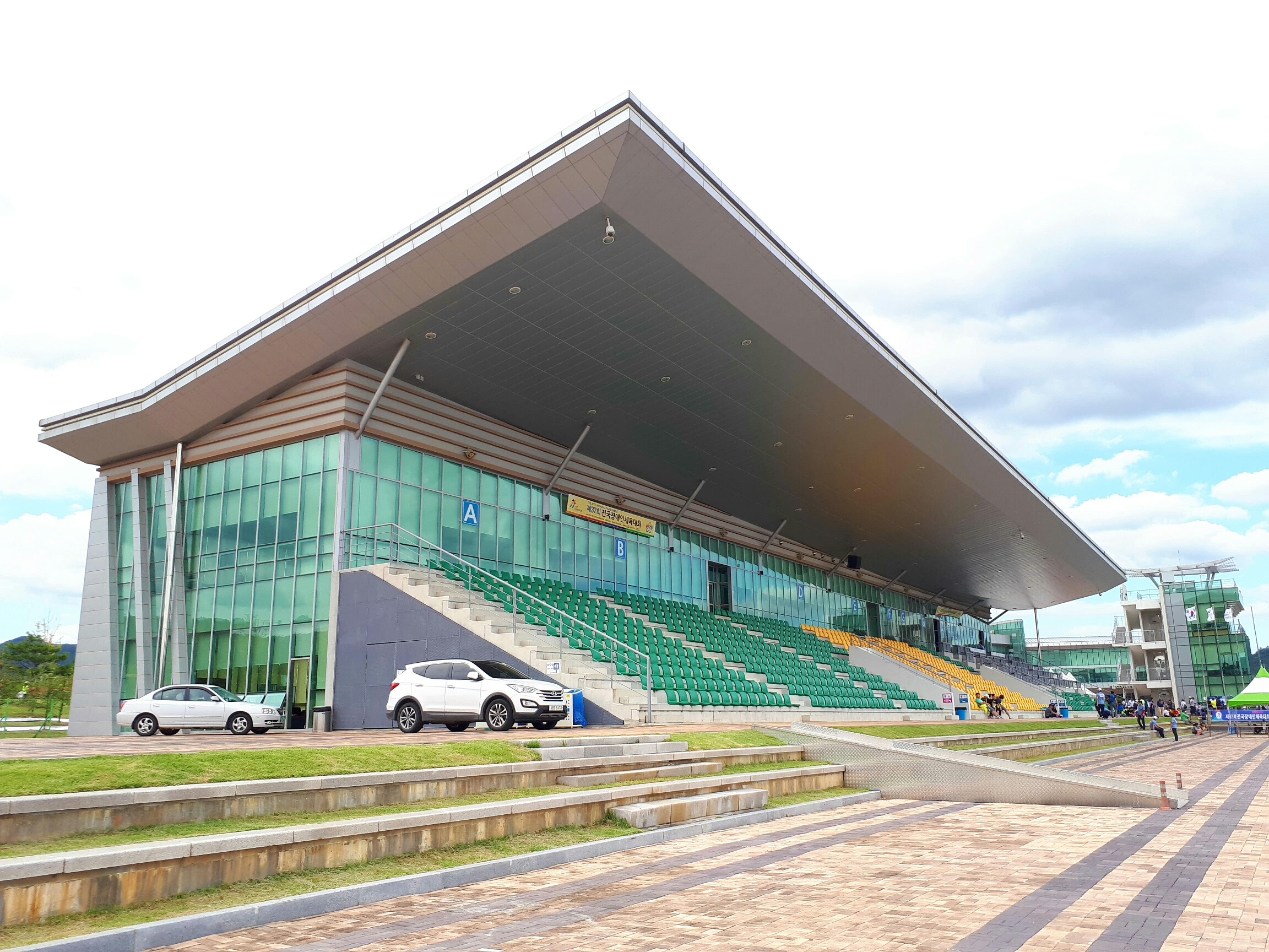 Chungju Tangeum Lake International Rowing Center (2013 World Rowing Championship Venue)